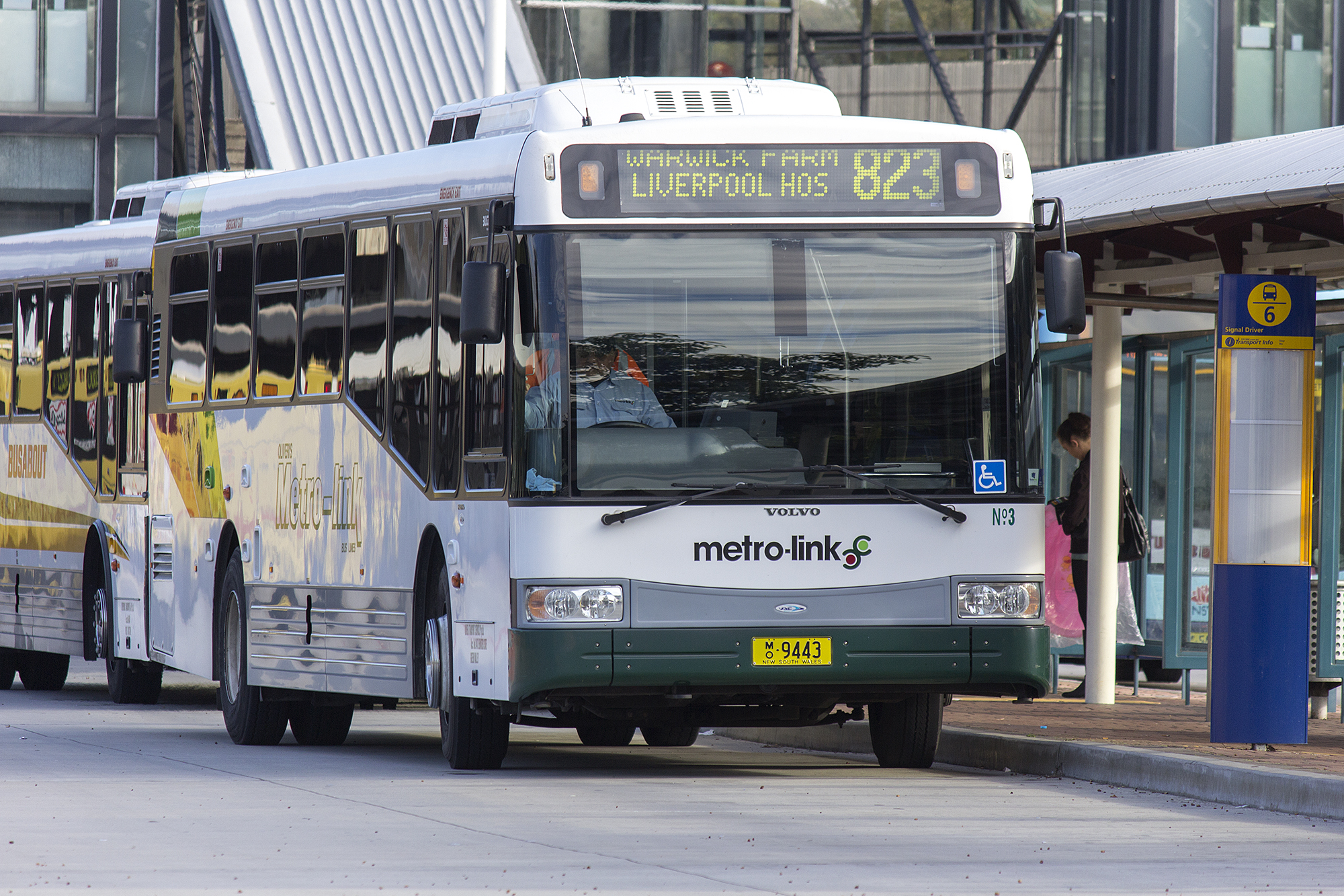 Metro-link Bus Lines (mo 9443) Bustech 'VST' bodied Volvo B12BLE at Liverpool Interchange.